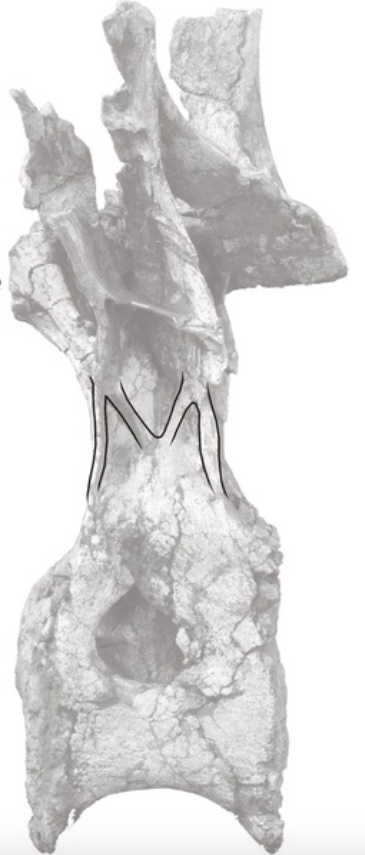 posterior dorsal vertebra from the holotype specimen of Rebbachisaurus garasbae.